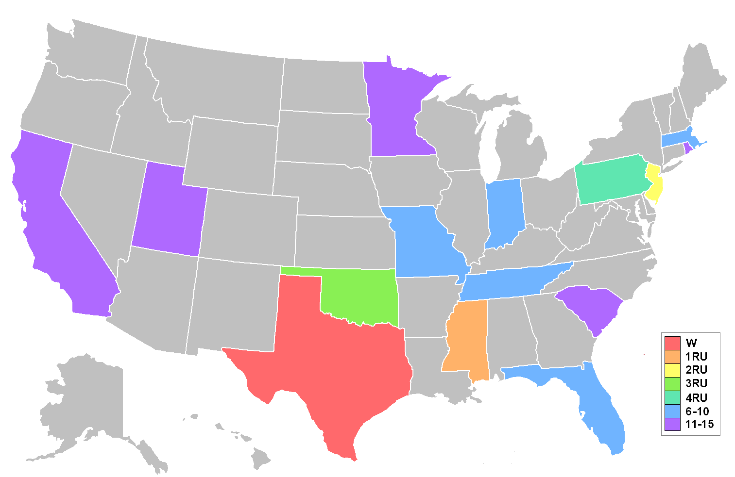 Map showing placements at the Miss USA 2008 pageant. Key on graphic shows colour coding for break down of placements.